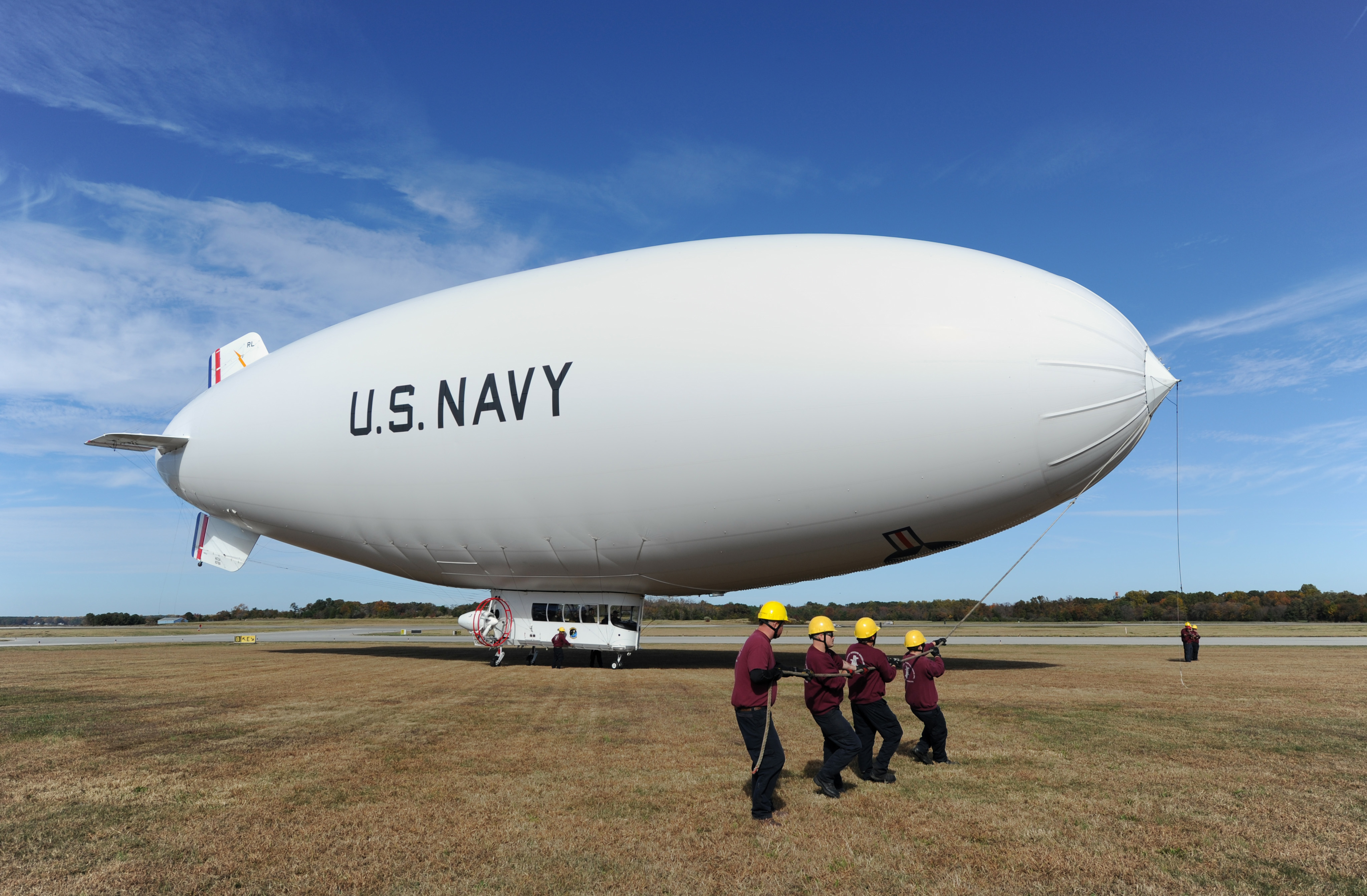 Handlers prepare to launch the U.S. Navy MZ-3A manned airship for an orientation flight from Naval Air Station Patuxent River, Md., on Nov. 6, 2013. The MZ-3A is assigned to Scientific Development Squadron 1 of the U.S. Naval Research Laboratory Military Support Division. The Navy blimp is an advanced flying laboratory that is being used to evaluate affordable sensor payloads and provide support for related naval research projects.